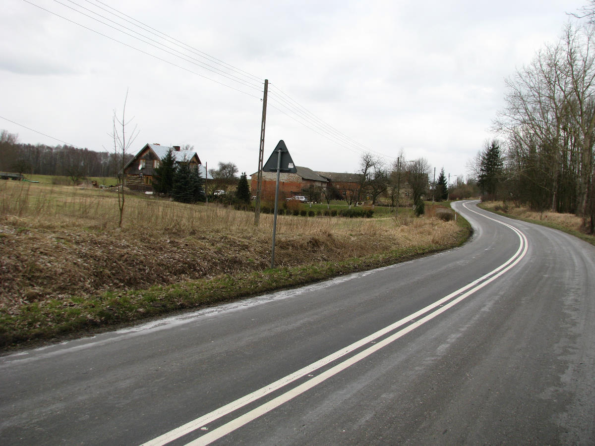 The national road no. 151 called "Droga wojewódzka 151 (DW 151)", in the village of Suliborek in Poland.